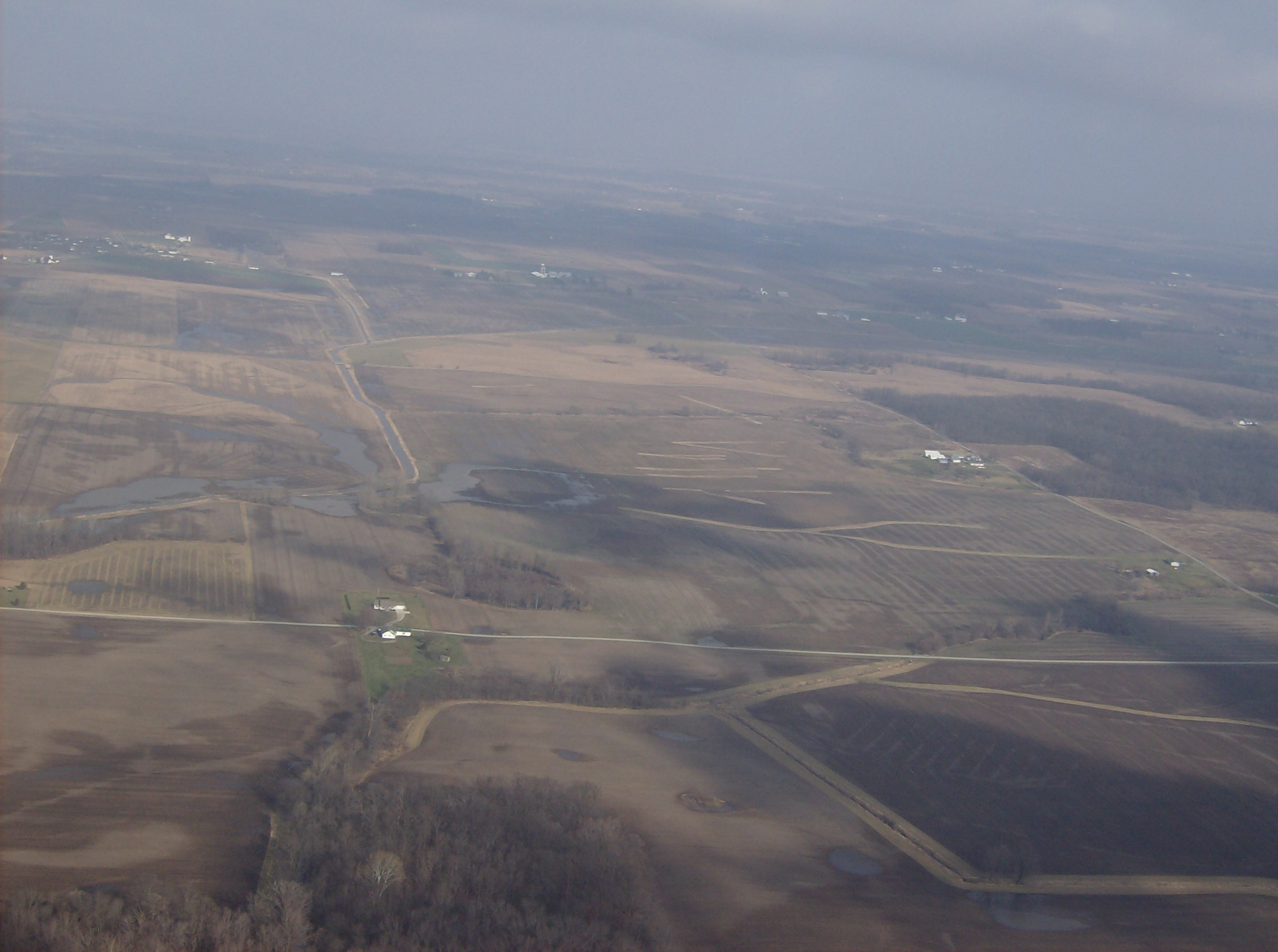 Fields in eastern Miami Township, Logan County, Ohio, United States, southeast of the village of De Graff. Picture taken from a Diamond Eclipse light airplane at an altitude of 2,500 feet MSL and a bearing of approximately 0º.